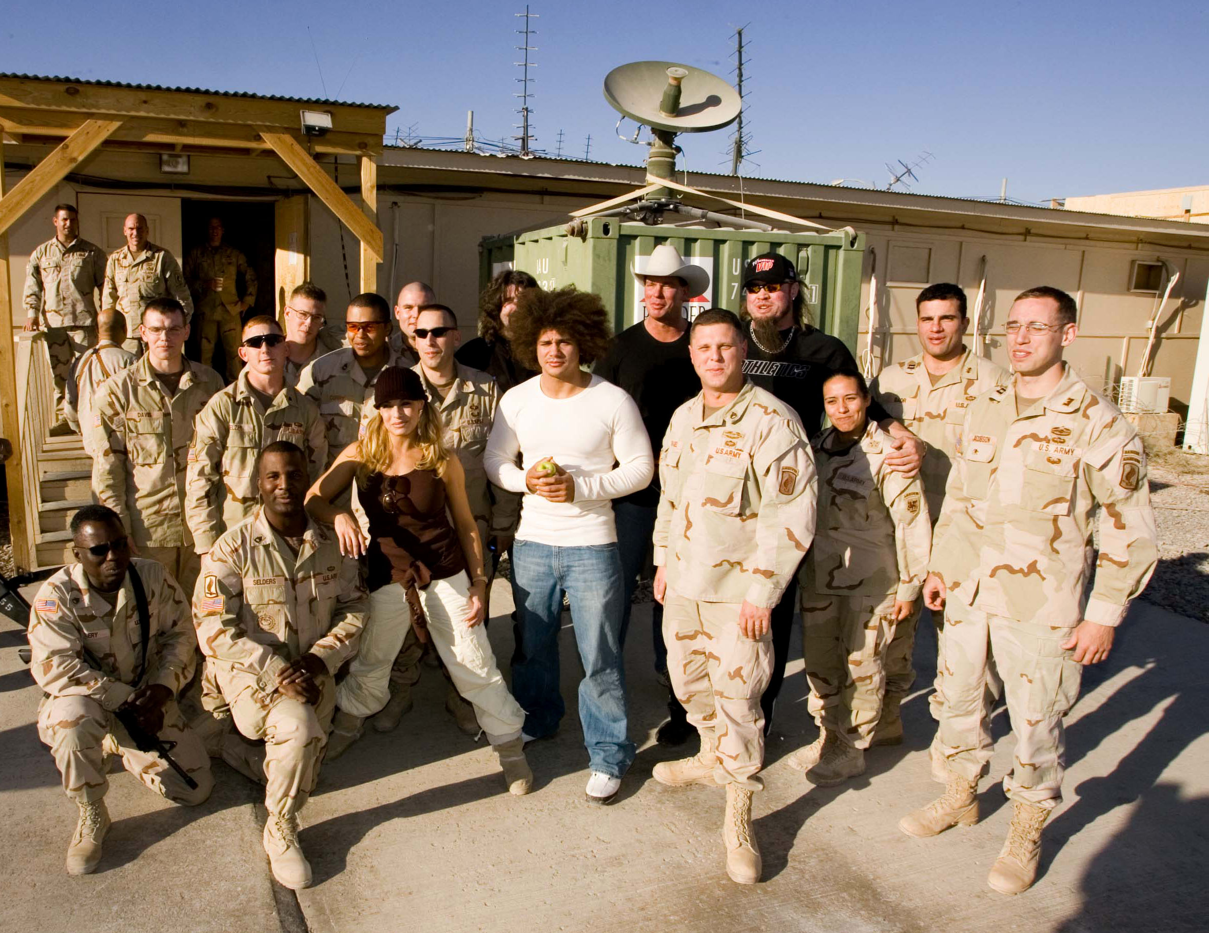 Professional wrestlers. From left to right: Trish Stratus, Mick Foley, Carlito, JBL and Gene Snitsky.